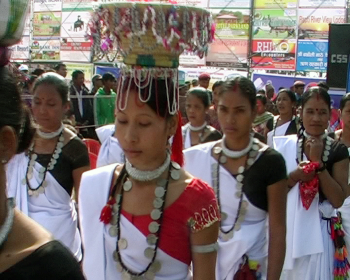 Nepali people